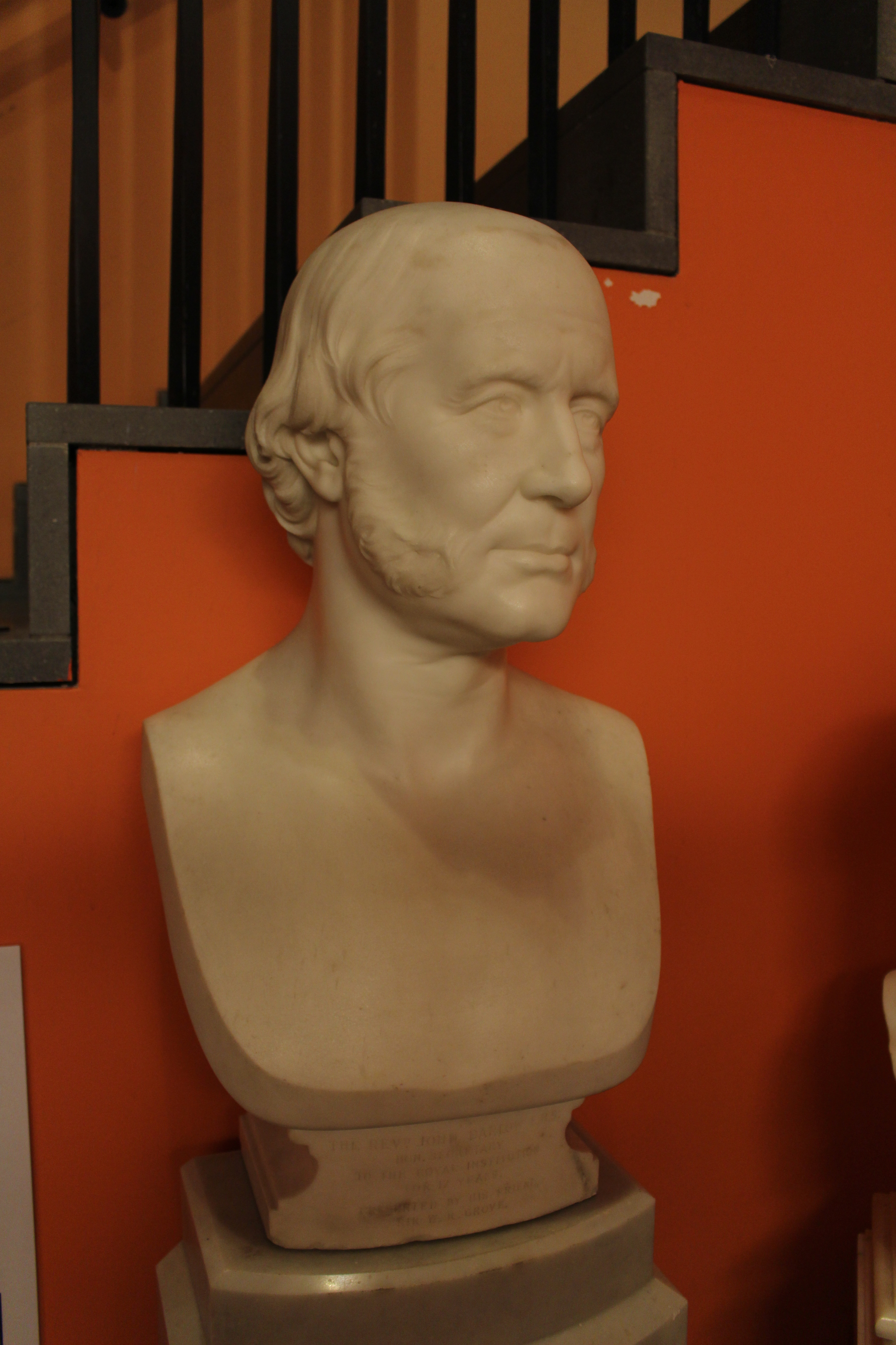 Pictures taken at the museum part of the Royal Institution building at 21 Albemarle St